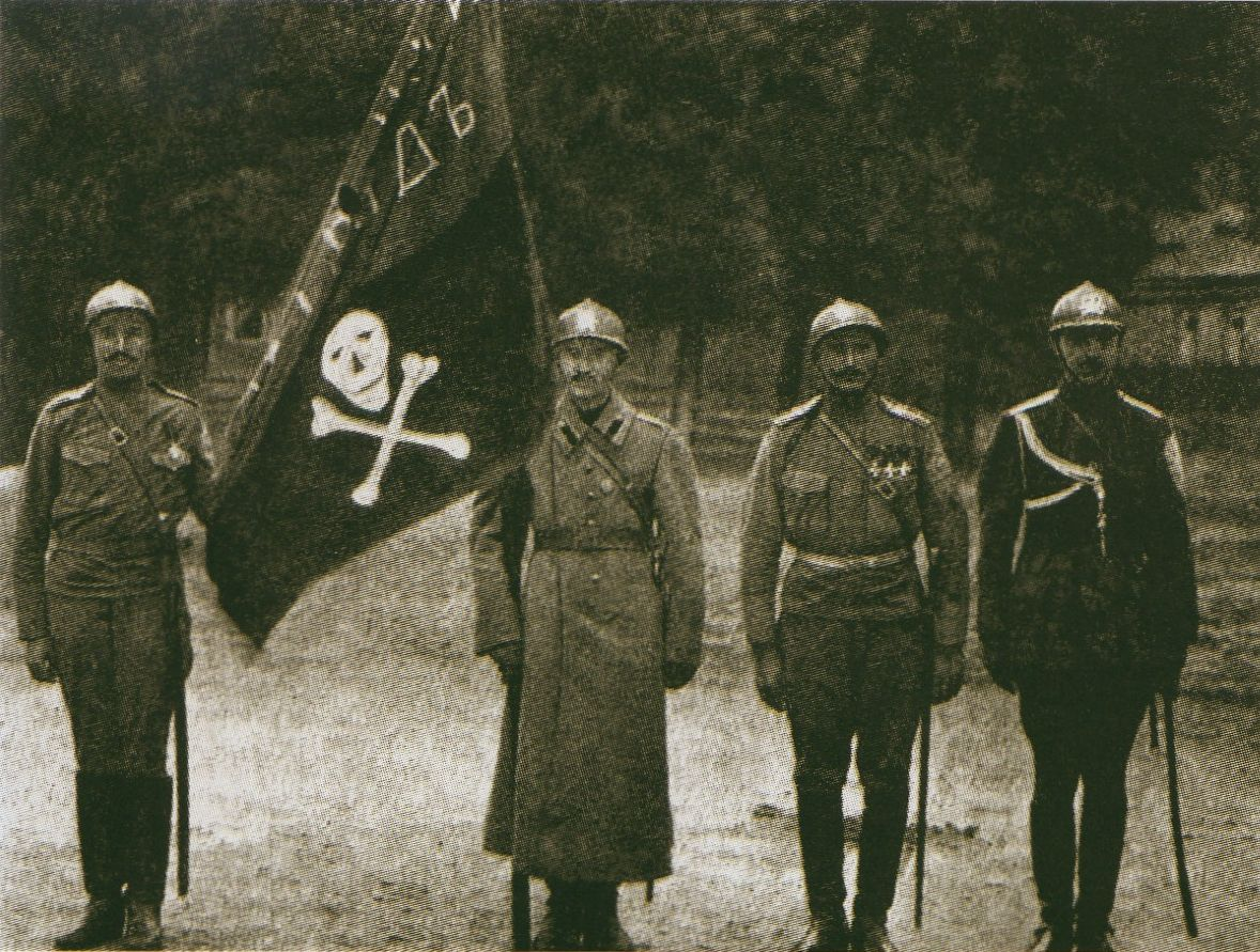 Flag bearer and honor guard of Kornilov's Shock Detachment, a part of the 8th Army (Russian Empire). World War I, Eastern Front, 1917.